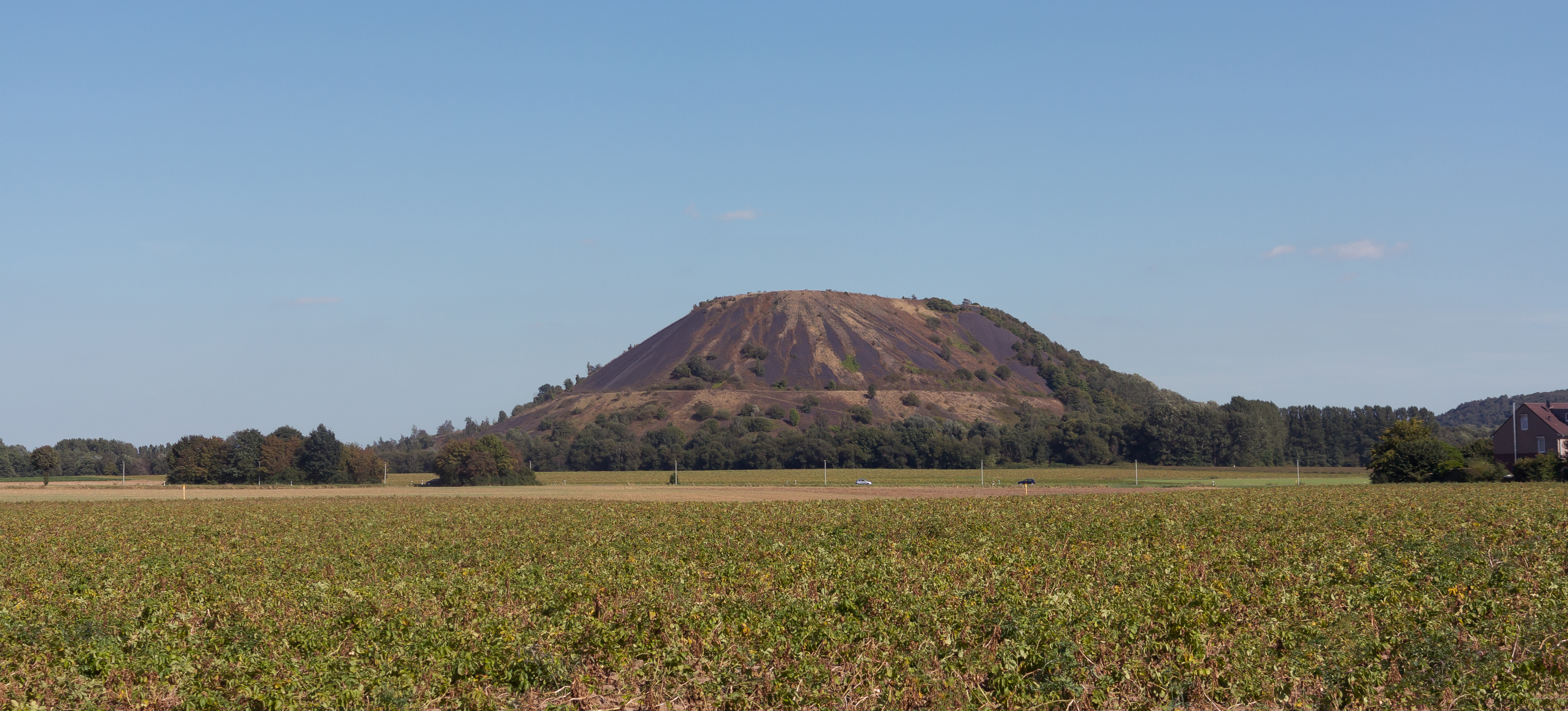 Noppenberg, protected area: Naturschutzgebiet Berghalden-Noppenberg